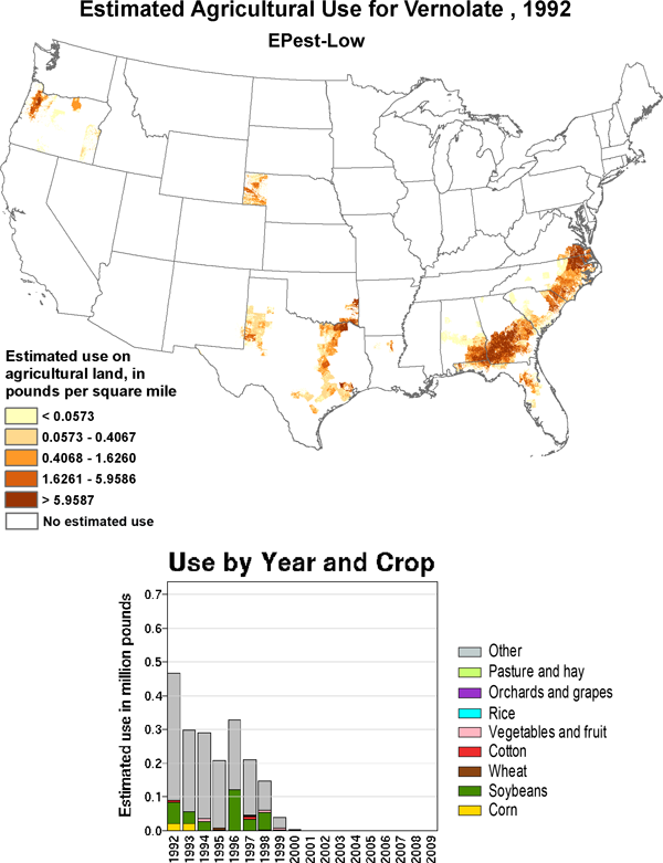 Vernolate map of use, USA, 1992 (estimated)